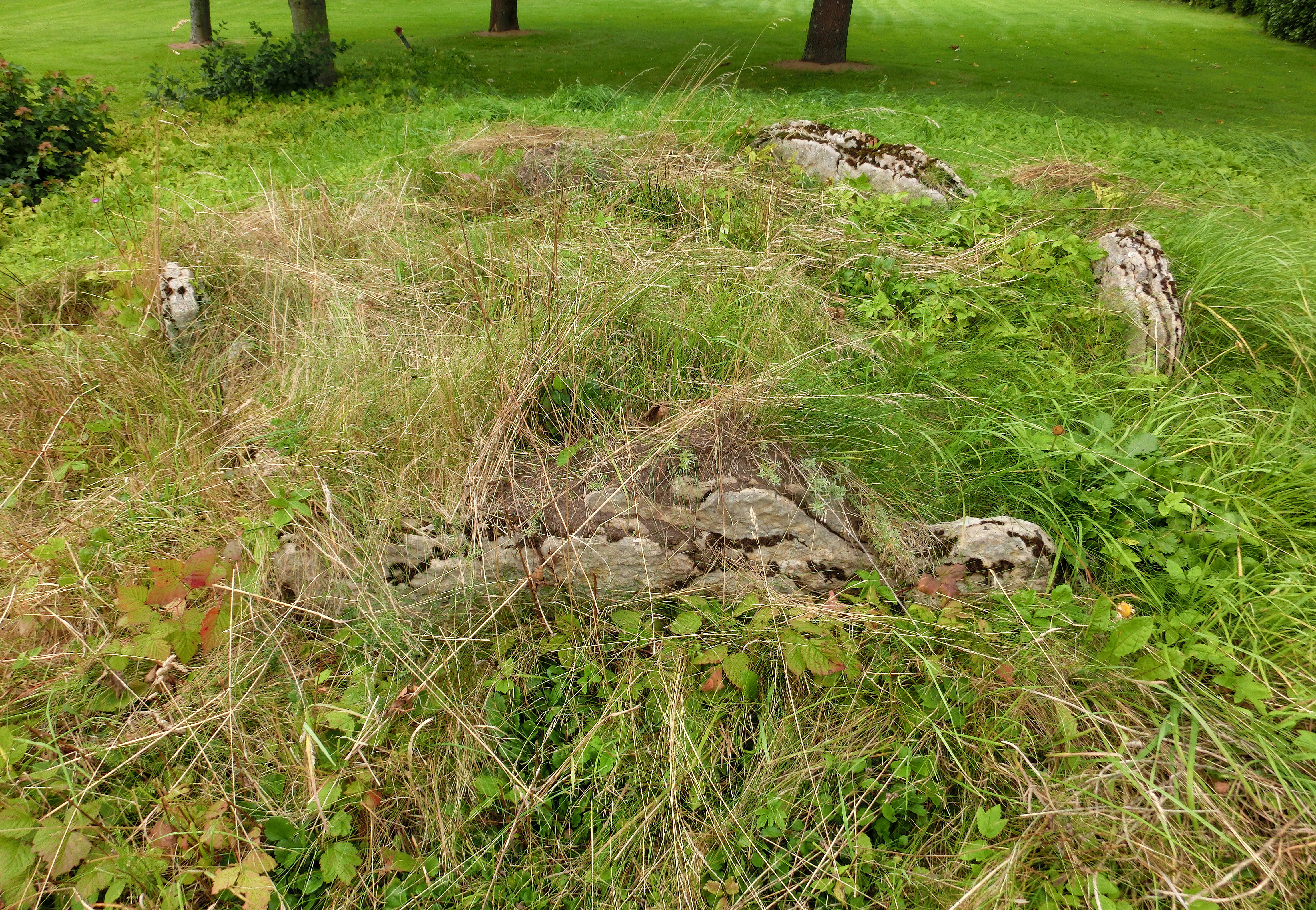 The Bestorp Dolmen (RAÄ No Falköpings västra 7:1) at Kapellsgatan 91, Södra Bestorp, former Falköpings västra Parish, FAlköping, Falköping Municipality, former Skaraborg County, Västergötland, Västra Götaland County, Sweden.